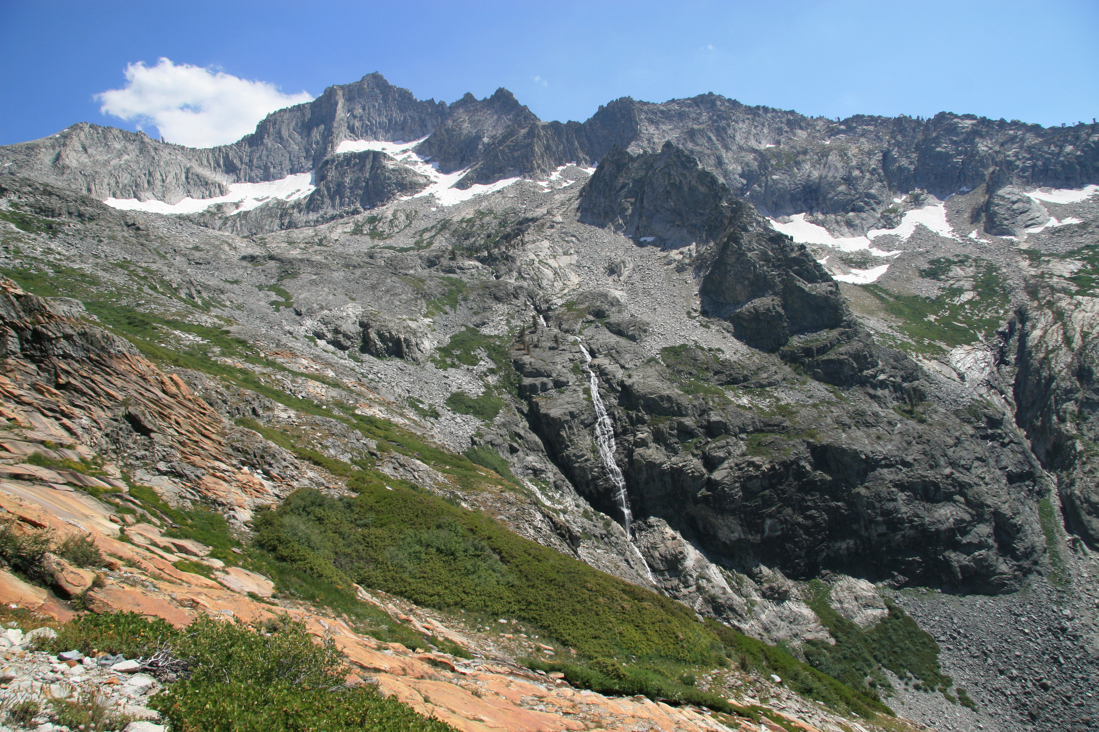 Kaweah bowl, with waterfall, looking up from High Sierra Trail between Hamilton Lake and Kaweah Gap. Sequoia National Park, California.